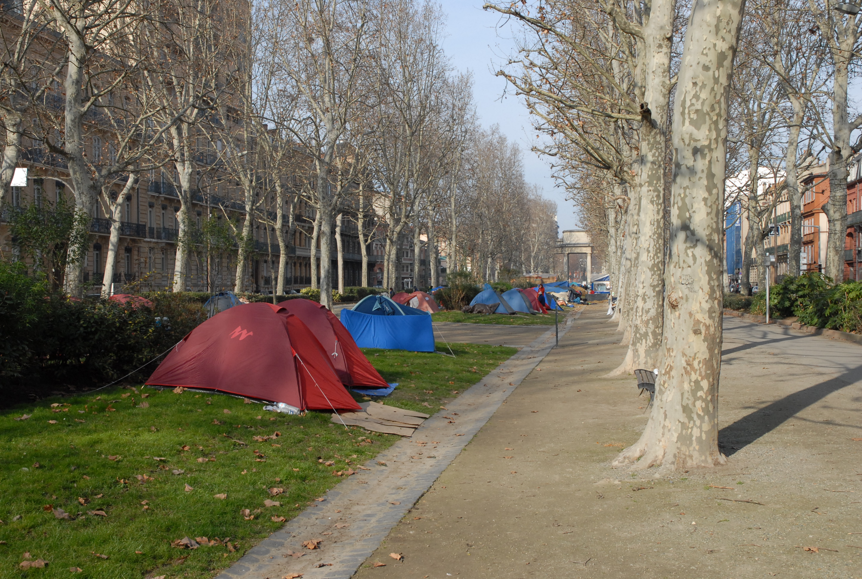 Tents installed by the charity Les Enfants de Don Quichotte (Children of Don Quichotte) in Toulouse, France